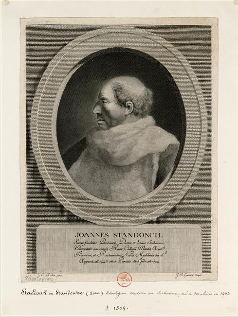 Jan Standonck (1453-1504), Belgian theologian according to Jean Baptiste Guyard (1677-1743)